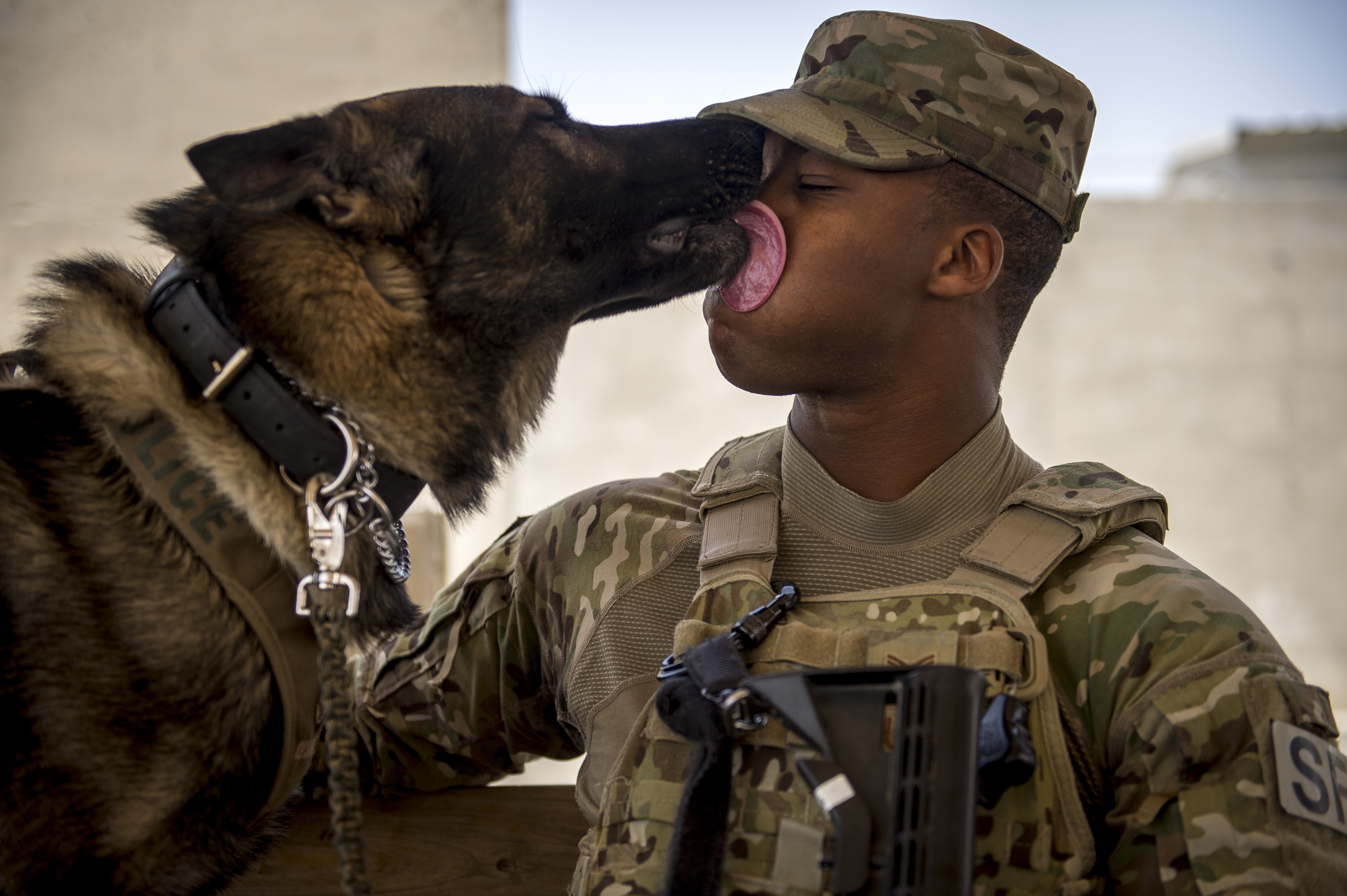 U.S. Air Force Staff Sgt. Mark Bush, 386th Expeditionary Security Forces Squadron military working dog handler, gets affectionately licked by his dog, Xarius, June 3, 2014 at an undisclosed location in Southwest Asia. Bush is deployed from the 28th Security Forces Squadron at Ellsworth Air Force Base, South Dakota in support of Operation Enduring Freedom. Bush hails from Chicago, Illinois. (U.S. Air Force photo by Staff Sgt. Jeremy Bowcock)